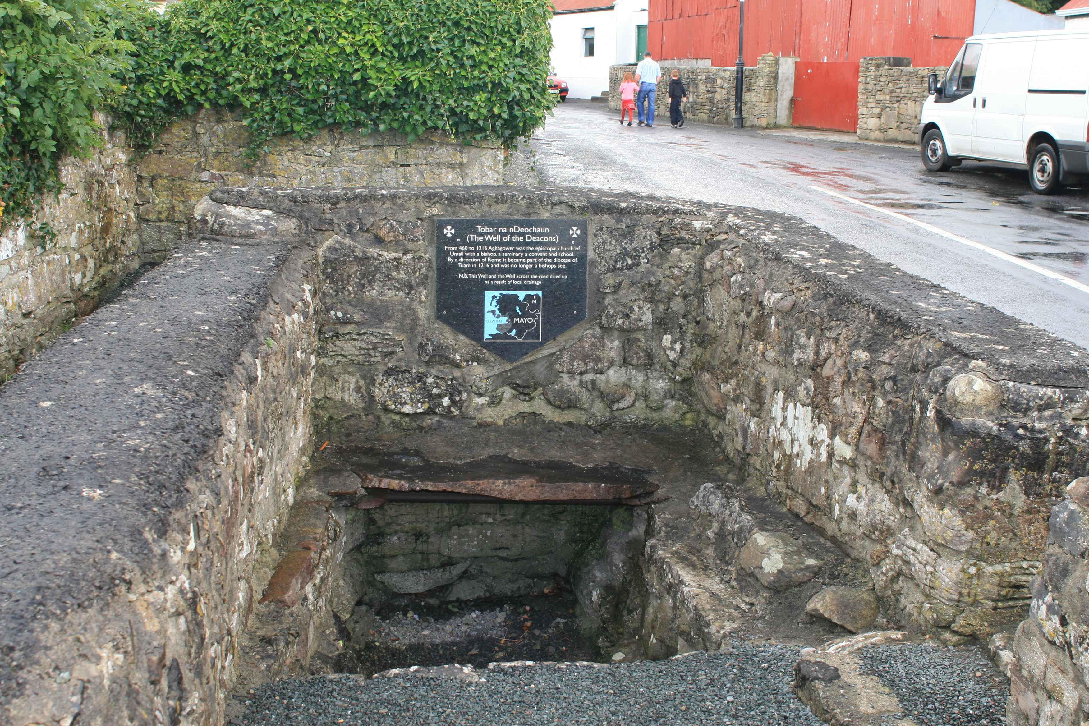 One of the two holy wells at Aghagower. The depicted plate reads: Tobar na nDeochaun (The Well of the Deacons): From 460 to 1216 Aghagower was the episcopal church of Umall with a bishop, a seminary a convent and school. By a direction of Rome it became part of the diocese of Tuam in 1216 and was no longer a bishops see. N.B. This Well and the Well across the road dried up as a result of local drainage.